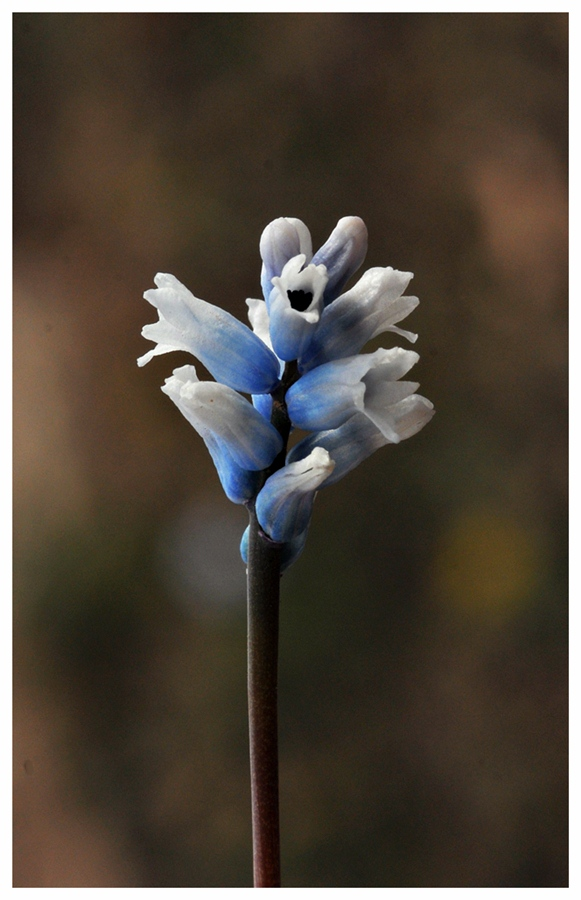 An endemic plant from Hola Sofî Hemê